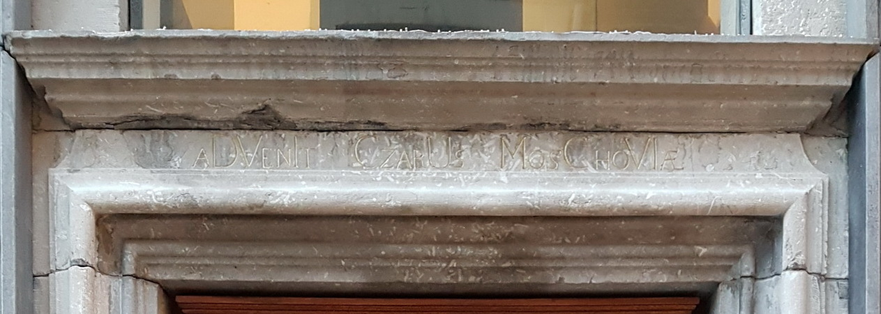 A chronogram on a door frame commemorating Peter the Great's visit to Maastricht in 1717, in Achter het Vleeshuis in the centre of Maastricht, the Netherlands.